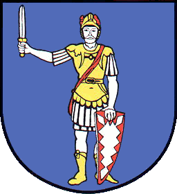 Coat of arms of the Stadt (town) Bad Bramstedt in Schleswig-Holstein, Germany.